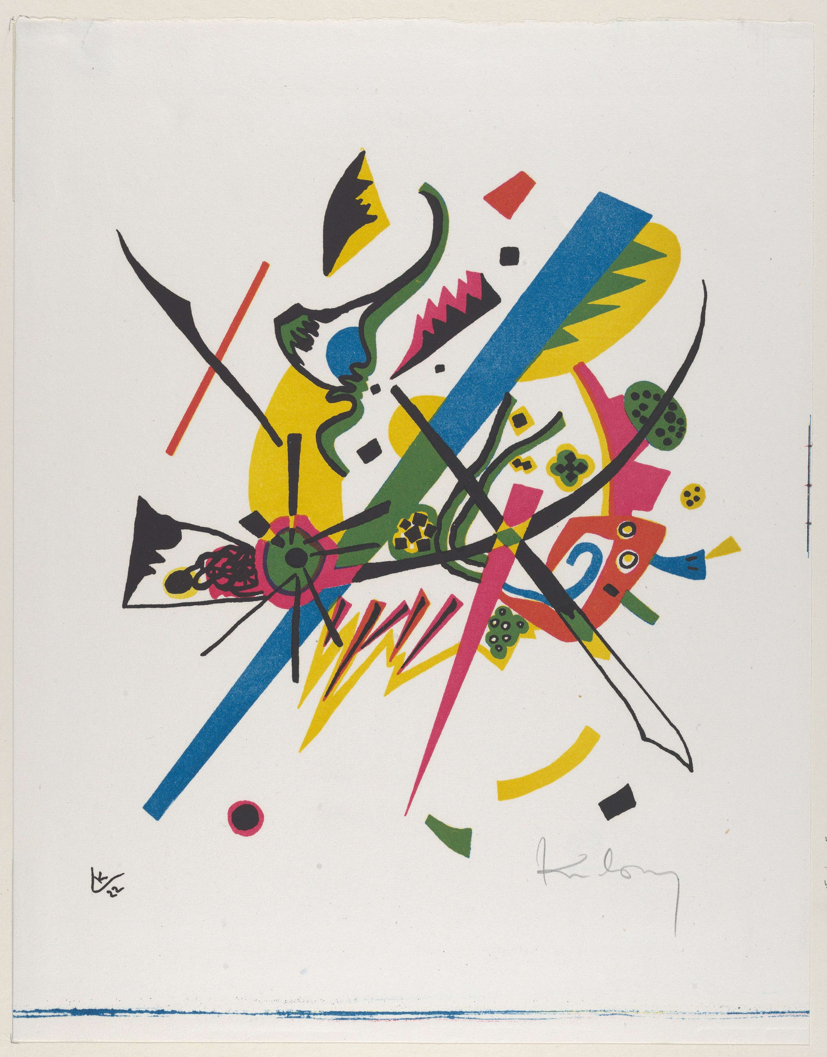 Print; Prints